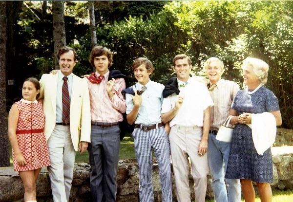 Campaign photo of the Bush family, the boys have their ties thrown over their shoulders (left to right: Doro, George, Jeb, Marvin, George W., Neil, and Barbara)